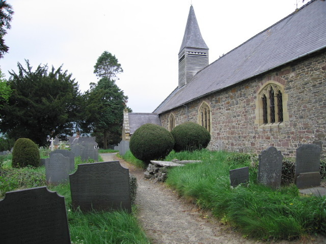 A simple church Llanwnog church has a lovely wood-clad spire.